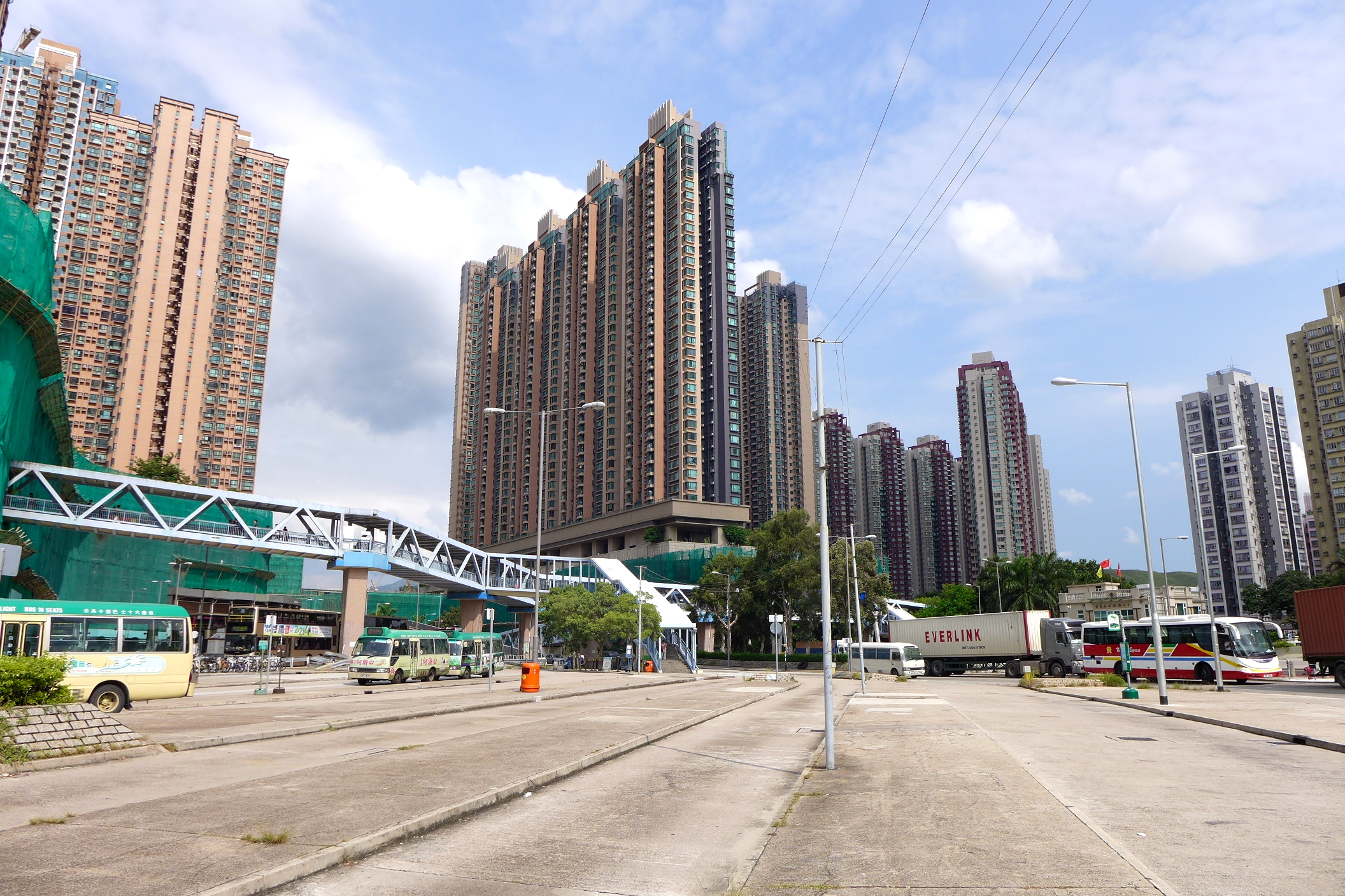 YOHO Town Overview